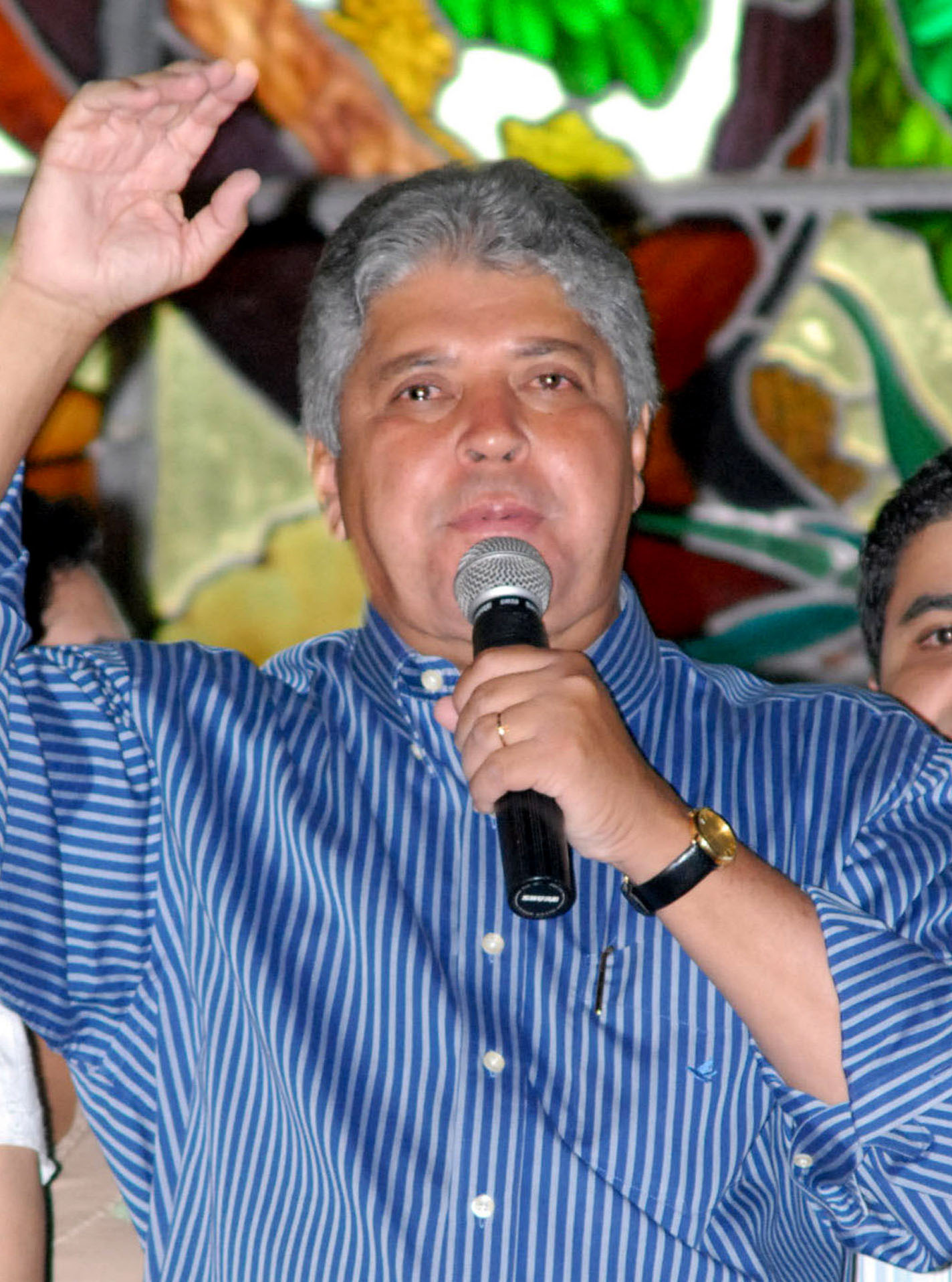 The re-elect governor of the Brazilian state of Goiás Alcides Rodrigues.